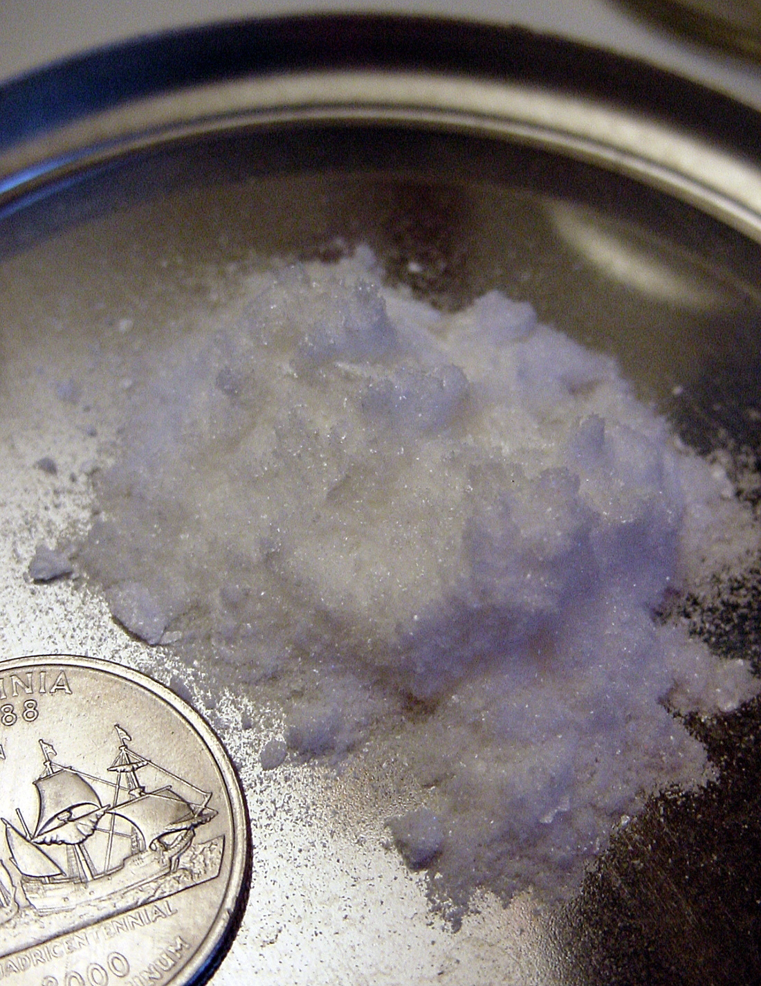 This photo was taken in 2001 [by Erowid staff Earth] of synthetic mescaline being weighed, 1 gram (963 mg actually). Substance identity verified by a lab.